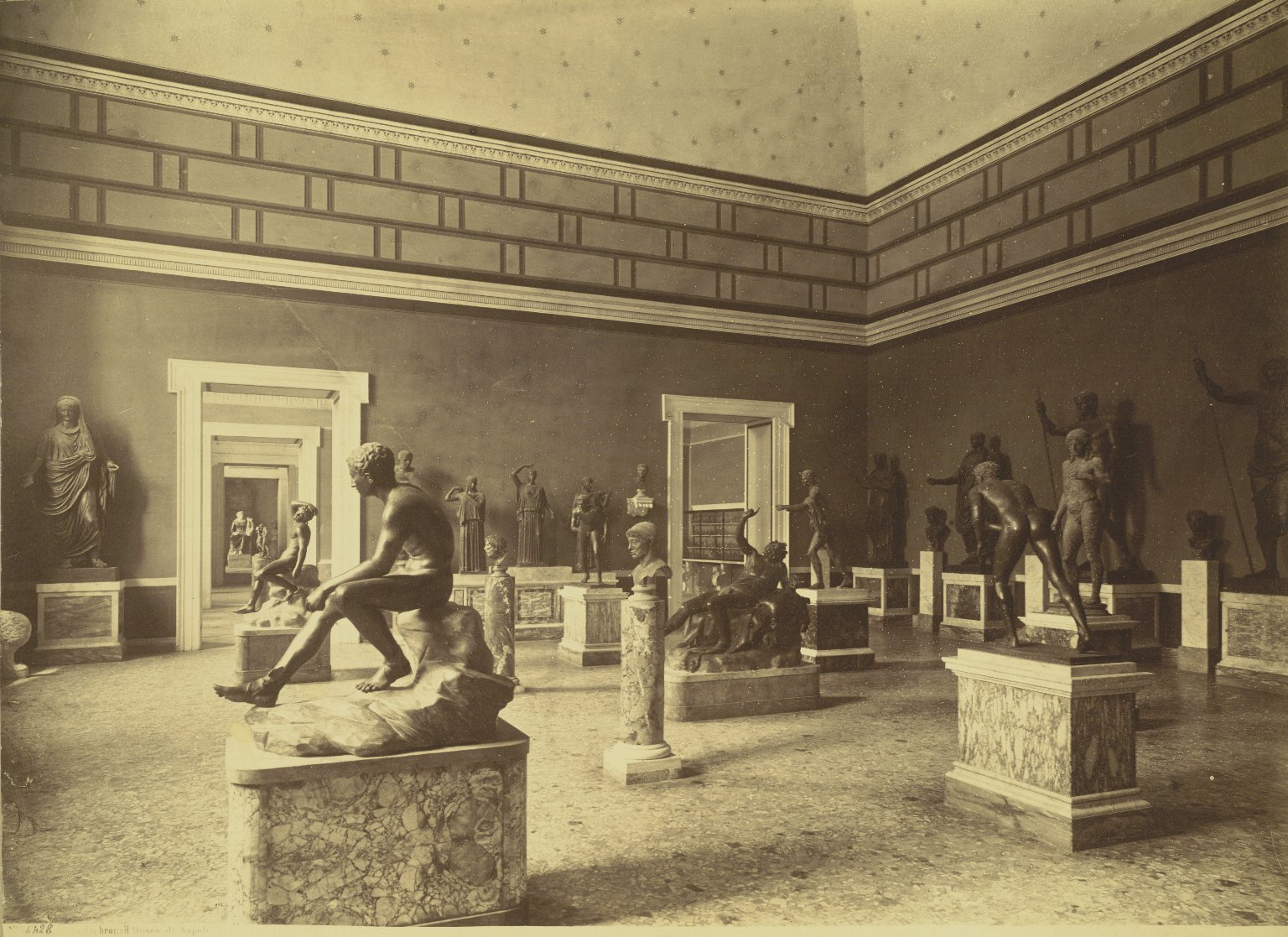 Giorgio Sommer (1834-1914), "Ancient Roman bronze statues - (Museum of Naples)". Catalogue # 4428.